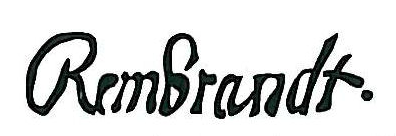 Signature of the painter Rembrandt